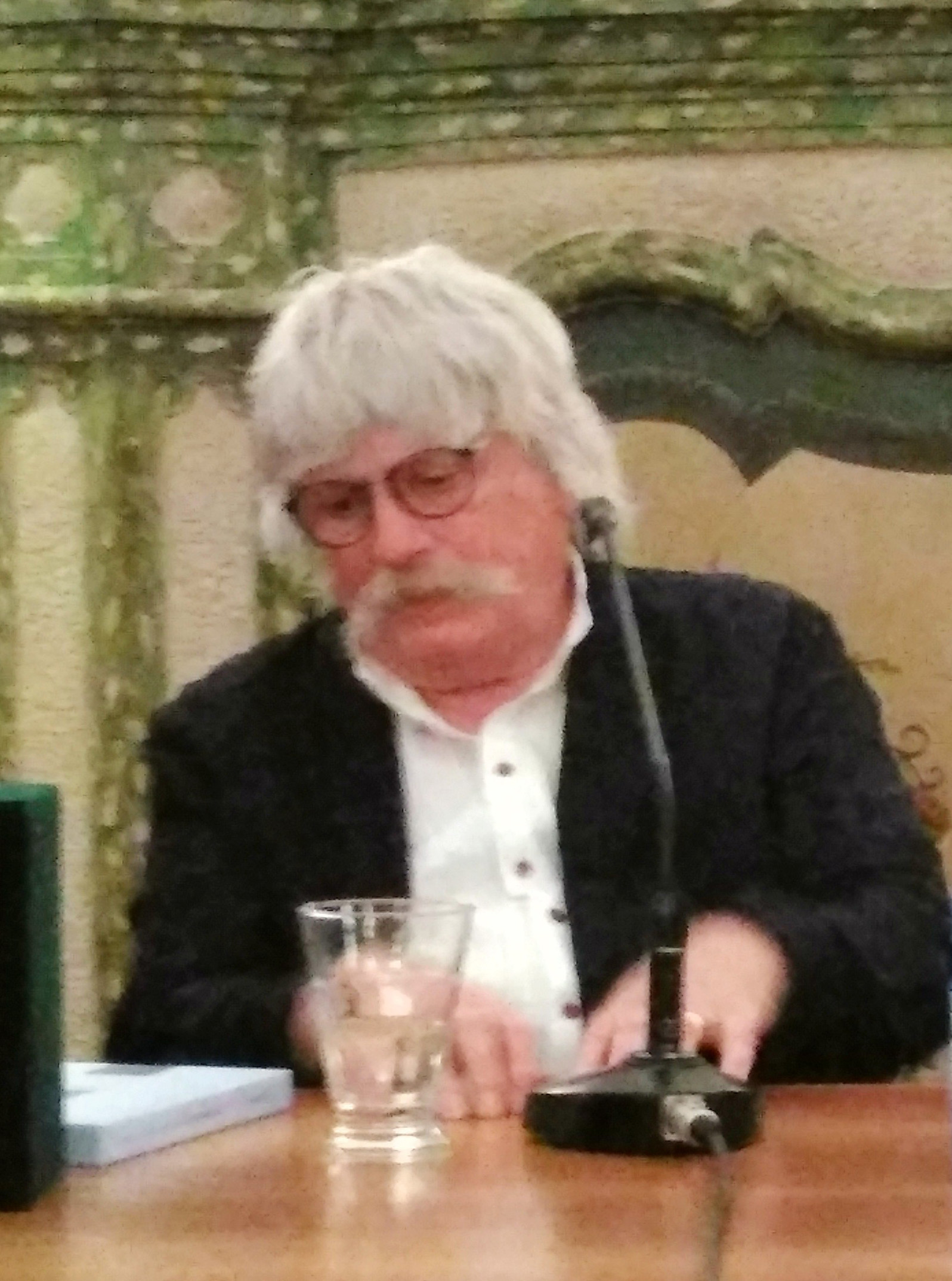 Karl Jenkins during a conference at the Historical Archive of Arco Town Hall